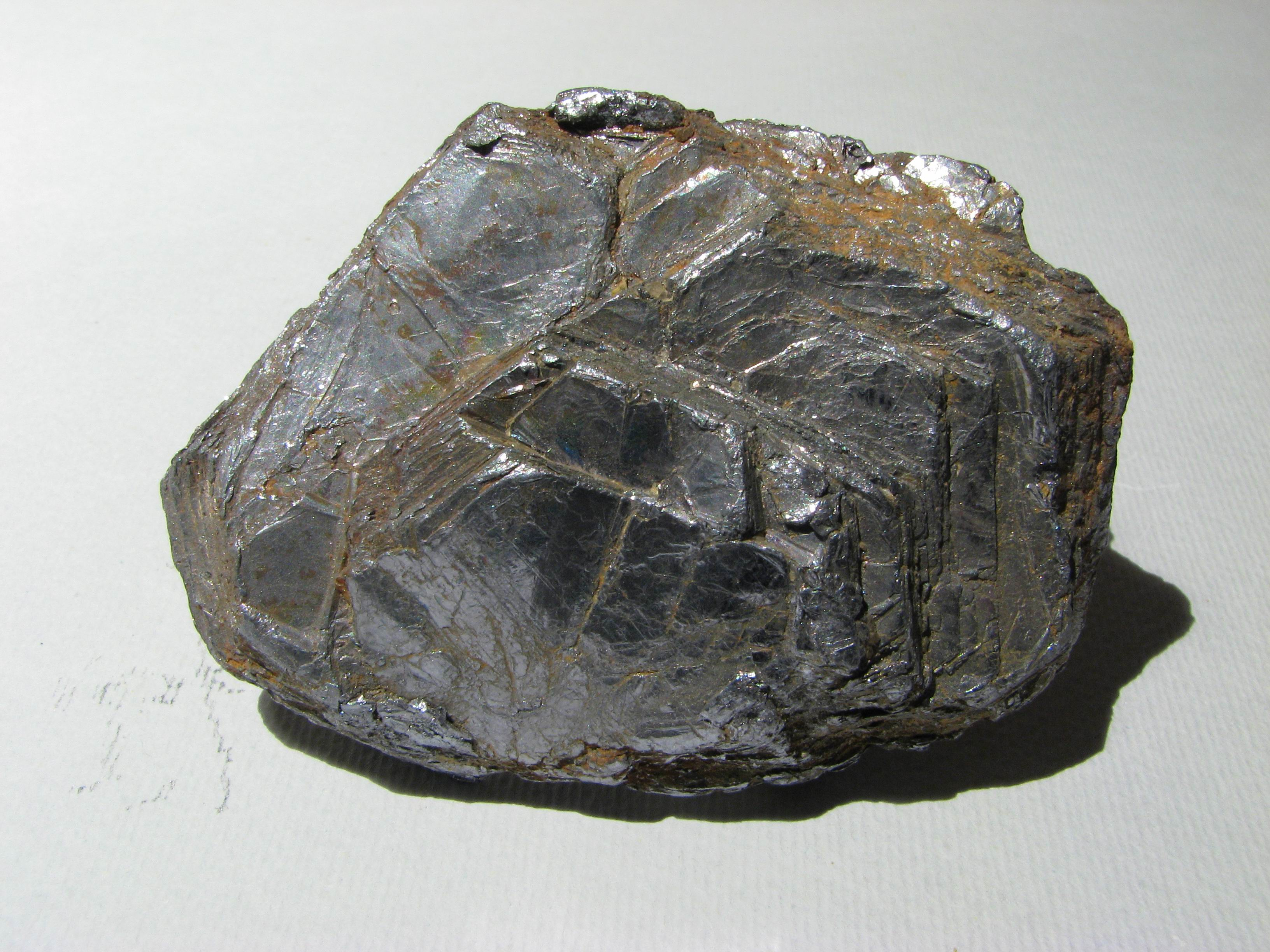 Molybdenite, hexagonal crystals (5 cm) - Øvrebø, Norway